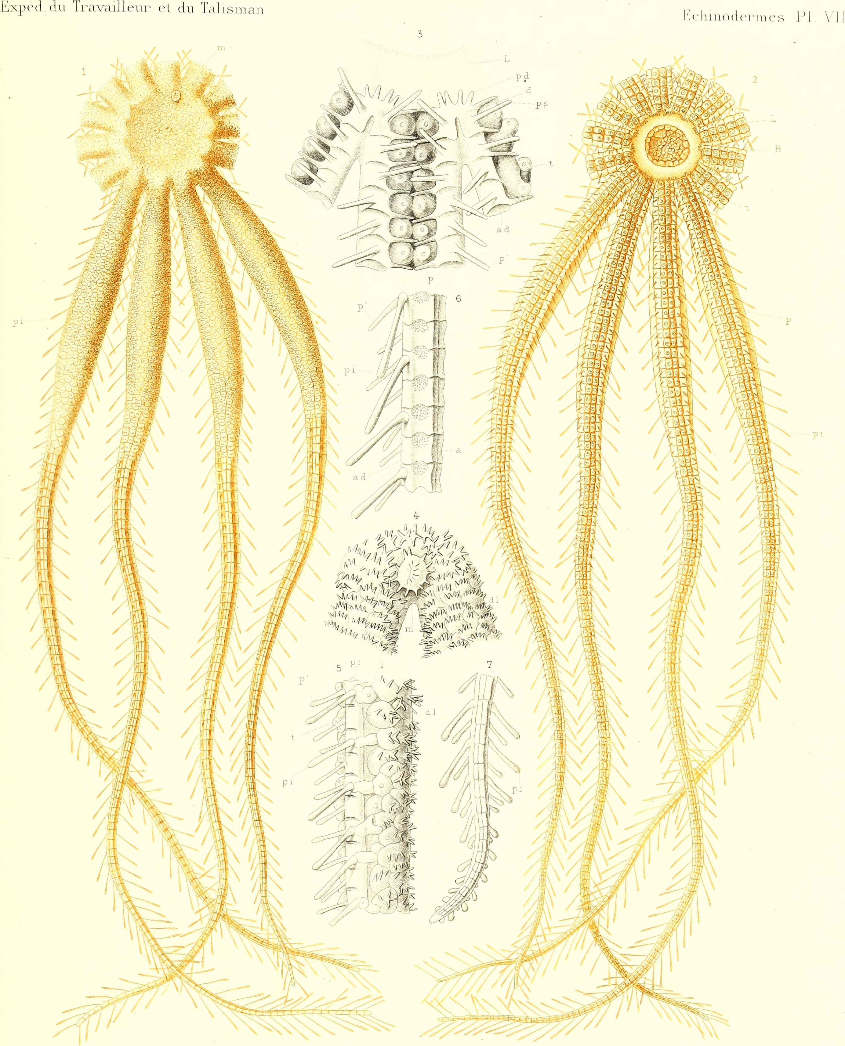 Title: Échinoderms Year: 1894 (1890s) Authors: Perrier, Edmond, 1844-1921 Subjects: Travailler (Ship); Talisman (Ship); Echinodermata Publisher: 431 p. plates Text Appearing Before Image: ' Text Appearing After Image: cil Richard del Lebrun se. Freyella spmosa E Perrier tmp Chc-irdon-WiUmann